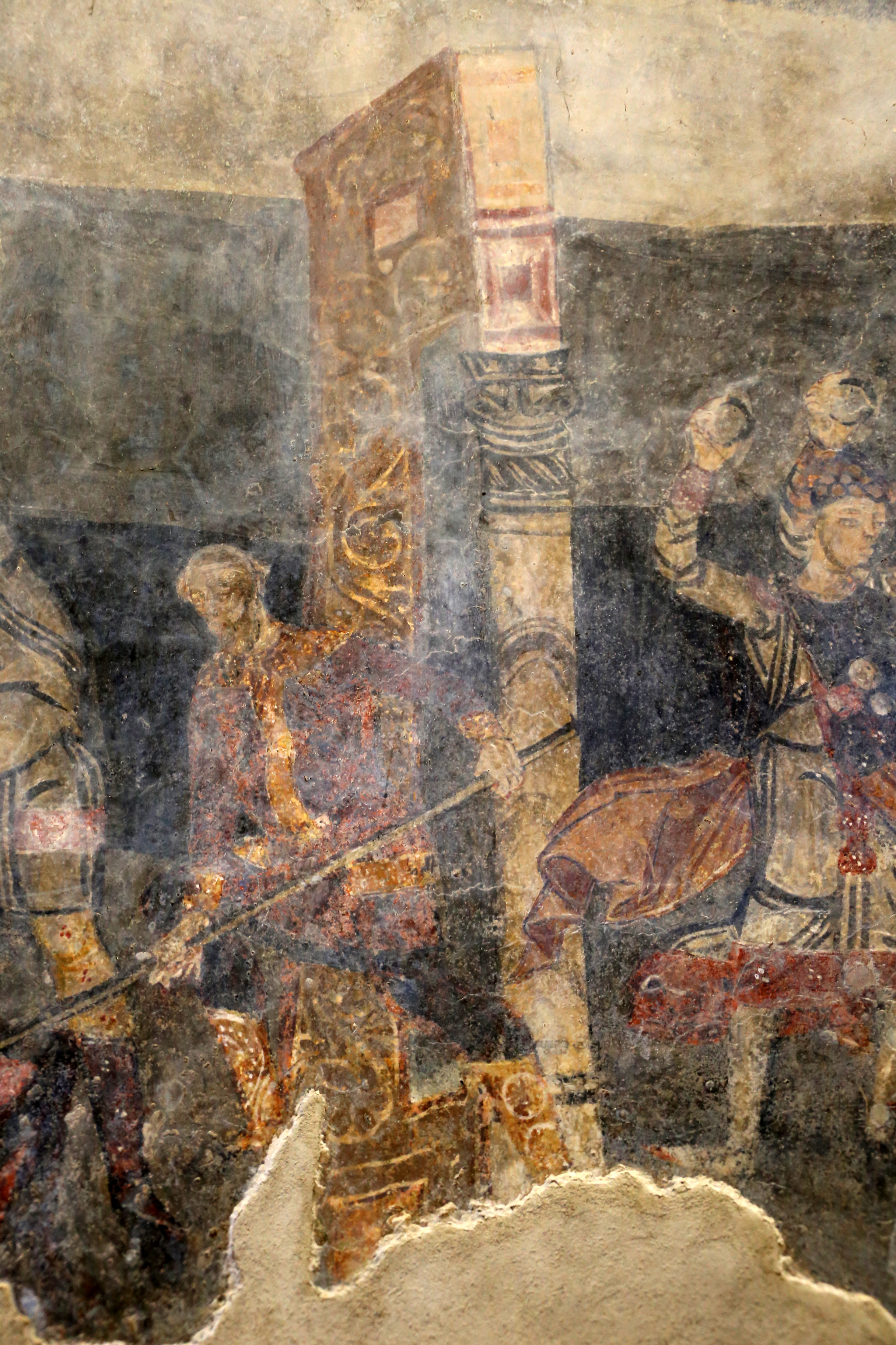 Epifanio Crypt